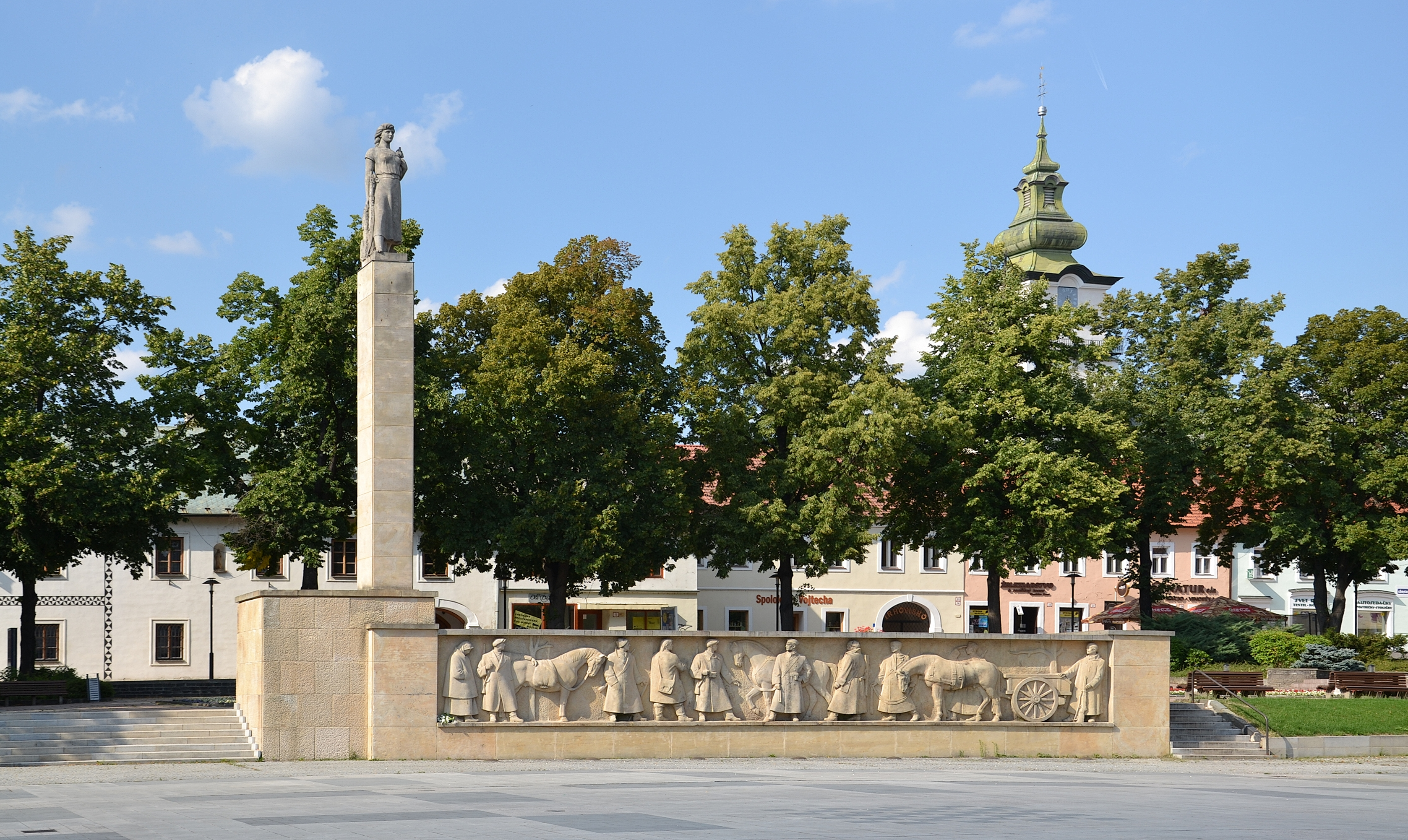 Prievidza (Priwitz, Privigye), Slovakia - memorial of the Slovak National Uprising